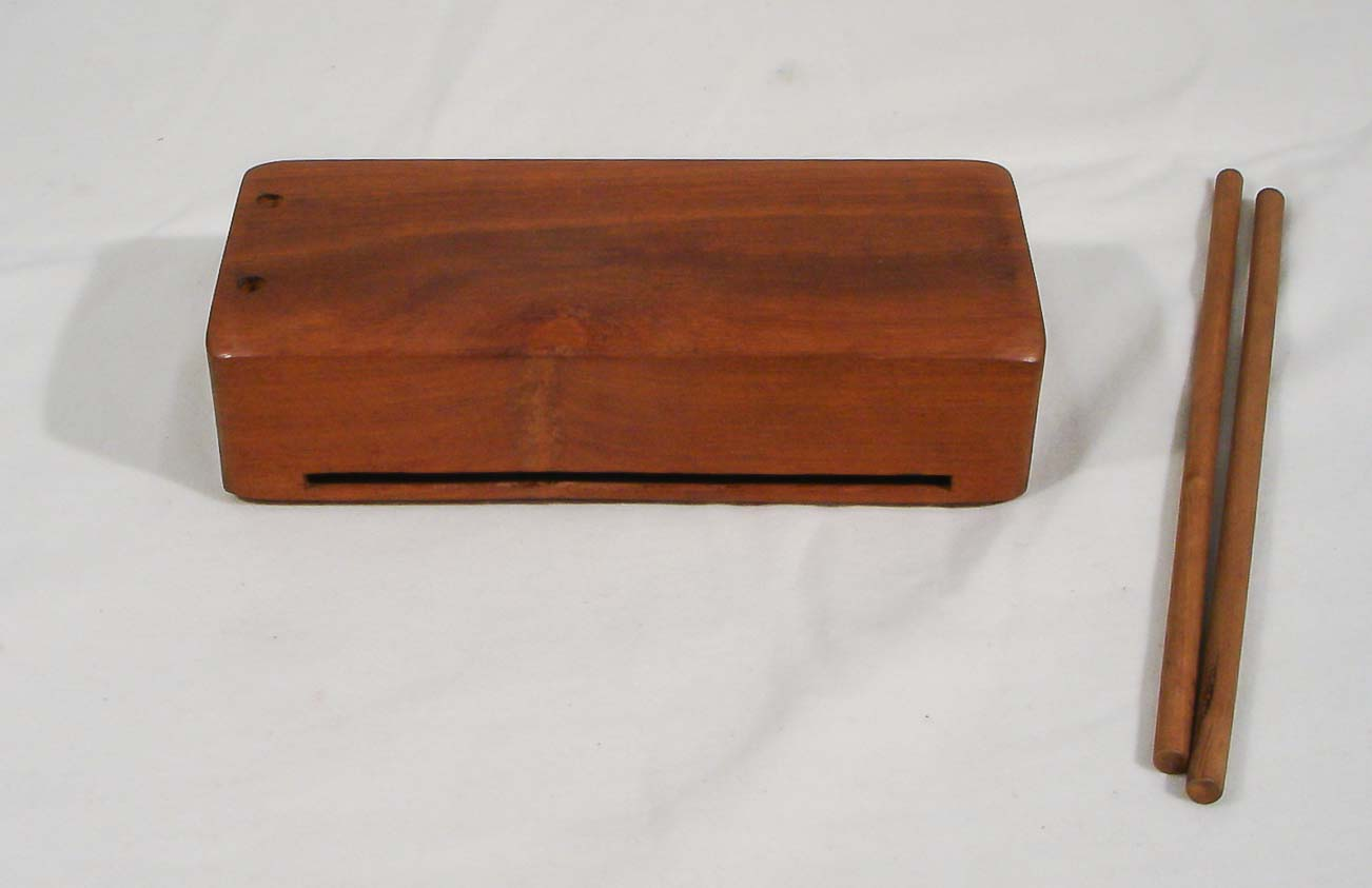 Chinese block, 20th century, MDMB 891, in Museu de la Música de Barcelona